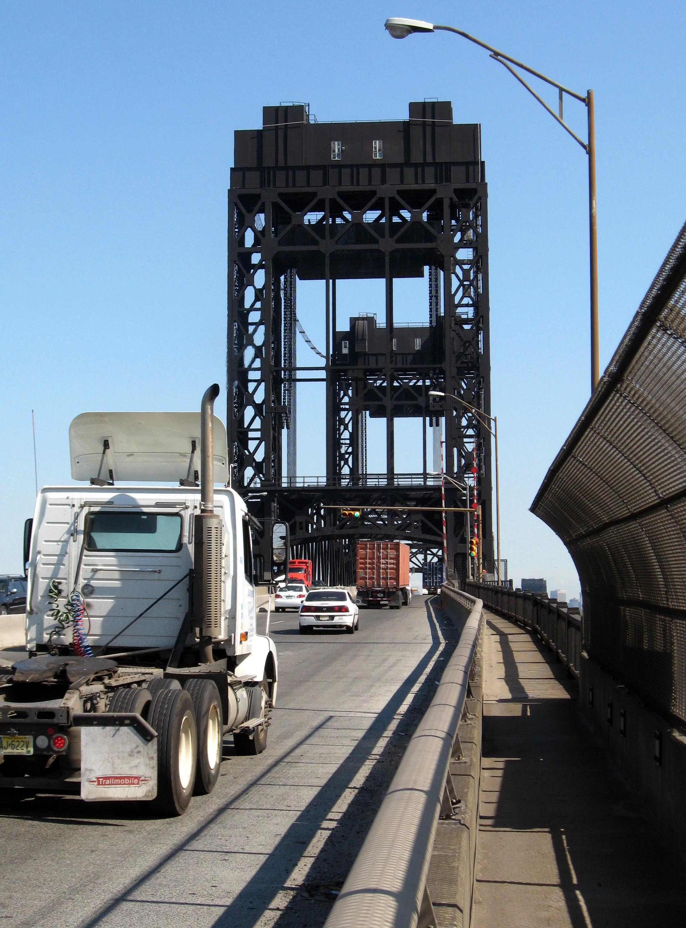 Lookng east at U.S. Route 1/9 Truck leaving Ironbound over a lift bridge over the Passaic river on a sunny midday